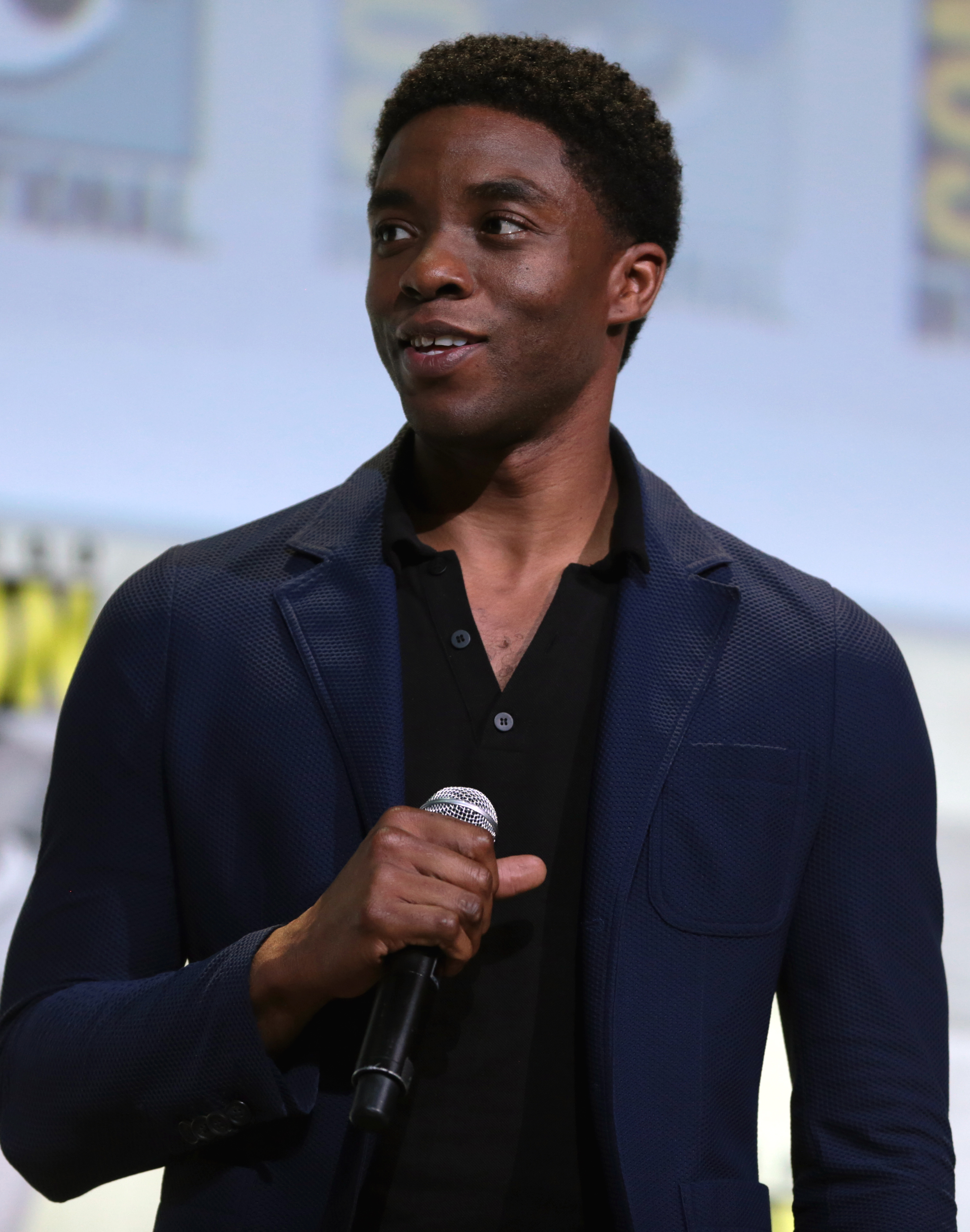 Chadwick Boseman speaking at the 2016 San Diego Comic-Con International in San Diego, California.